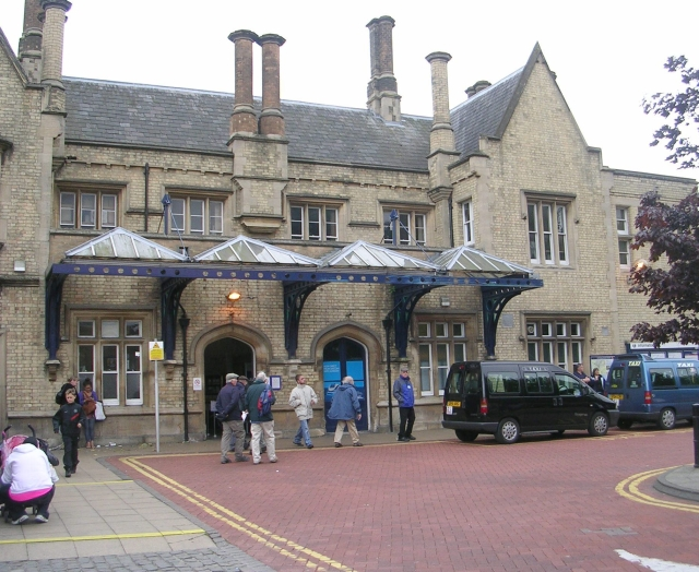 Lincoln Central Station - St Mary's Street